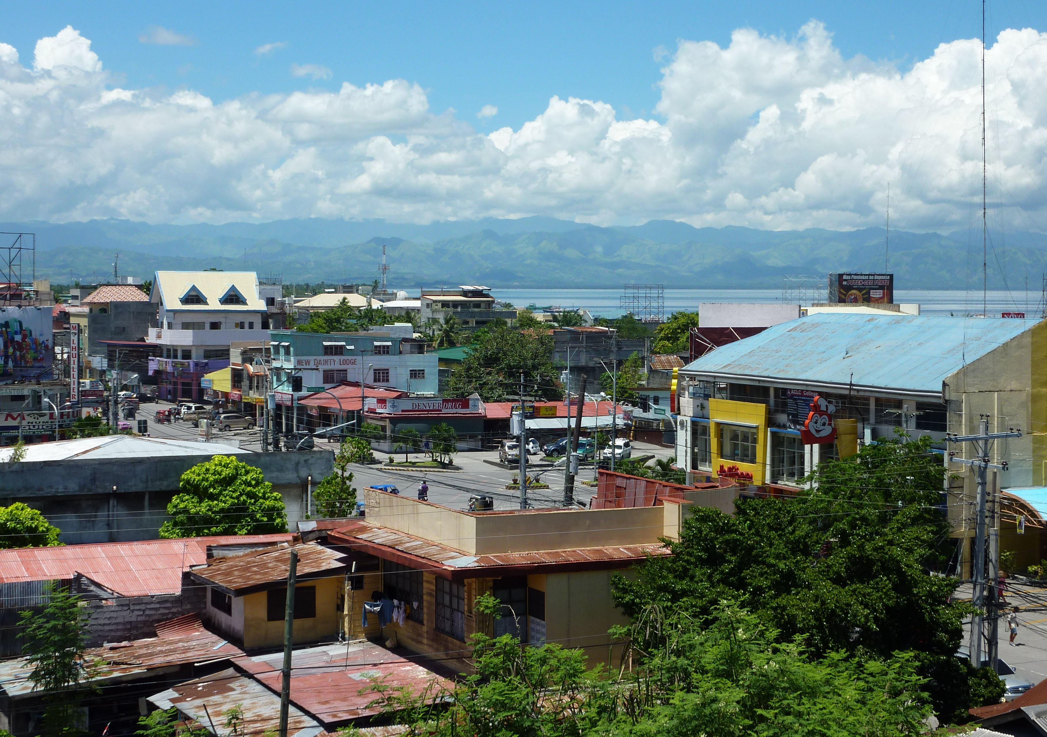 General Santos City source owne.